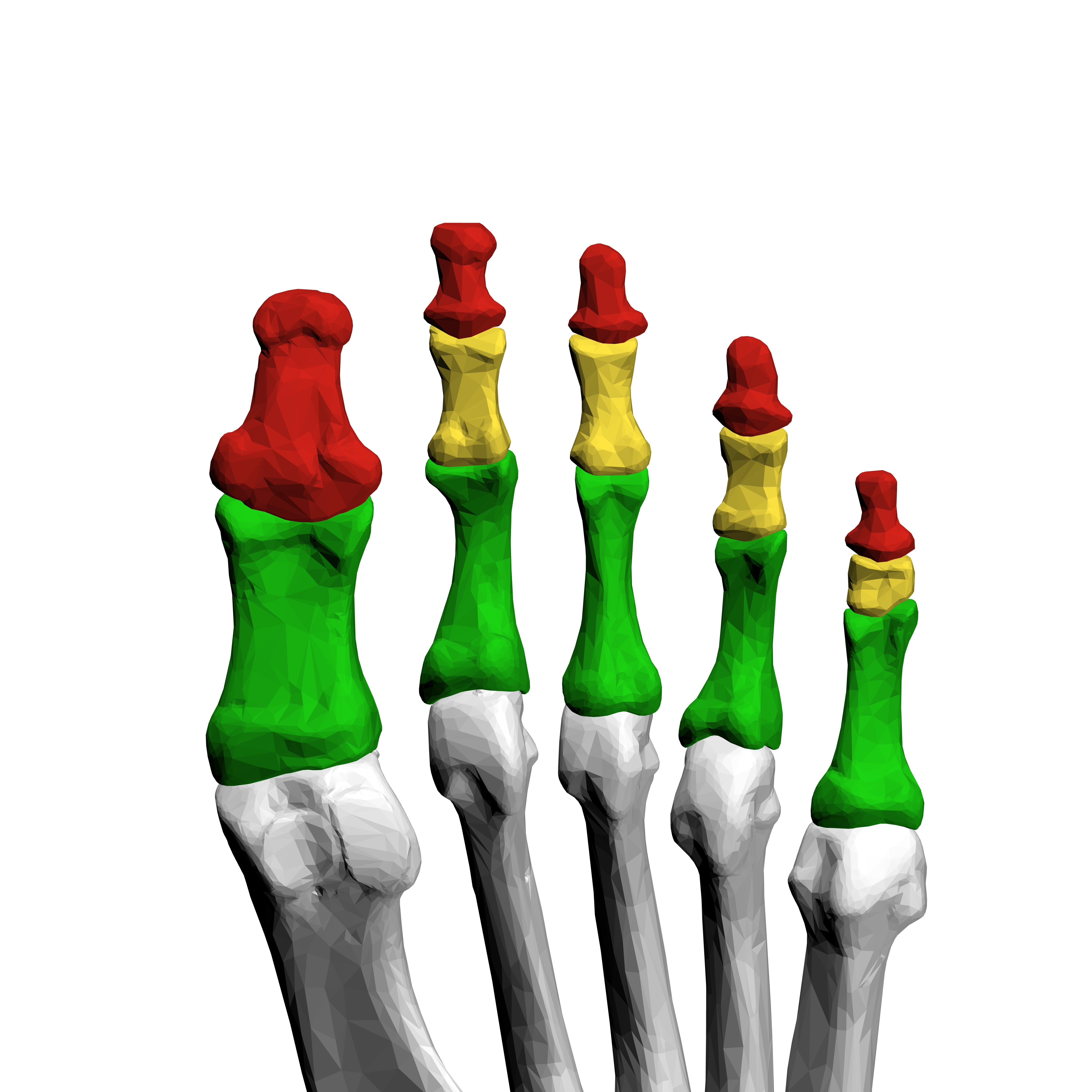 Phalanges of foot Distal phalanges of foot Middle phalanges of foot Proximal phalanges of foot